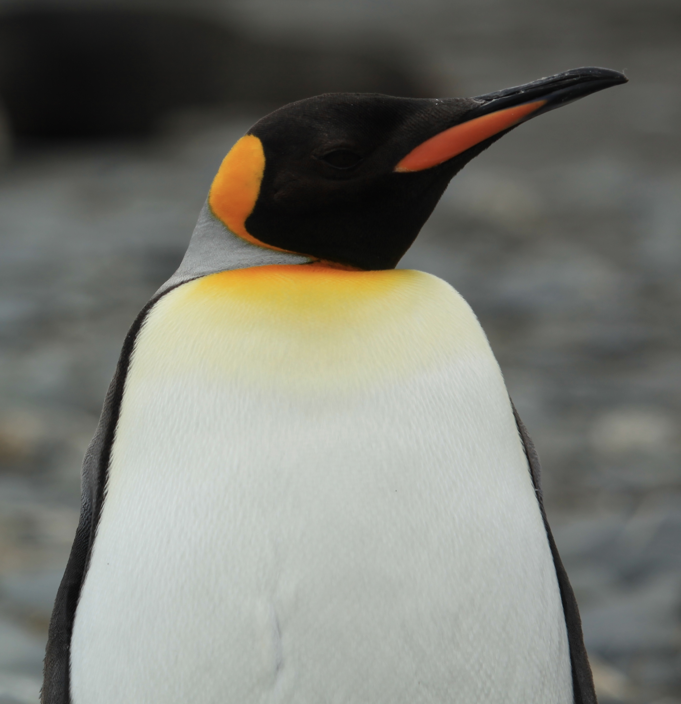 At Salisbury Plain, South Georgia.